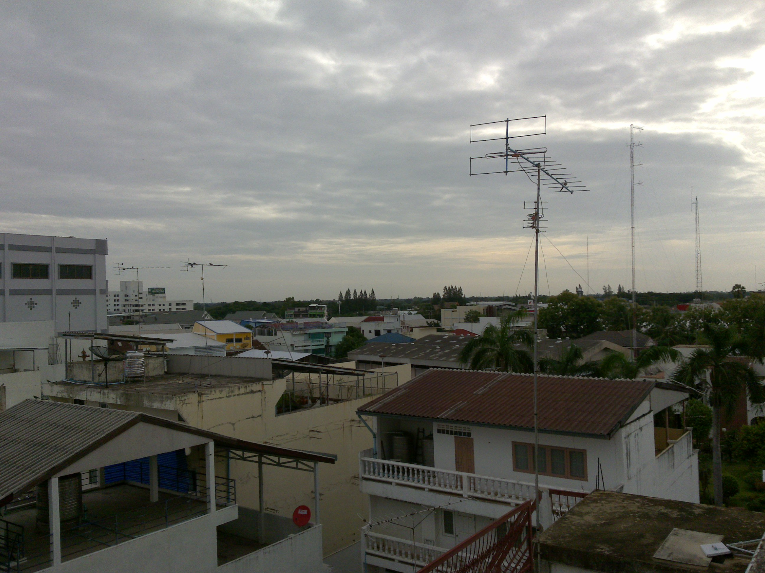 Buriram in The Morning View